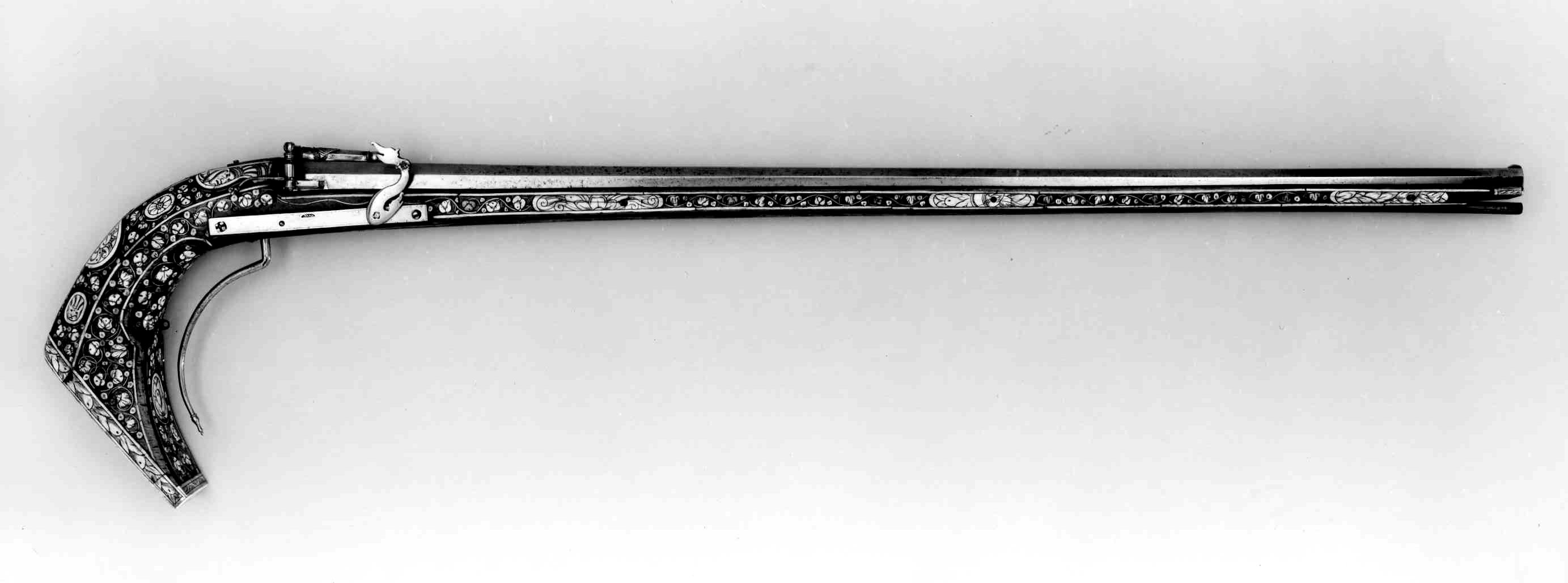 French; Matchlock petronel; Firearms-Guns-Matchlock